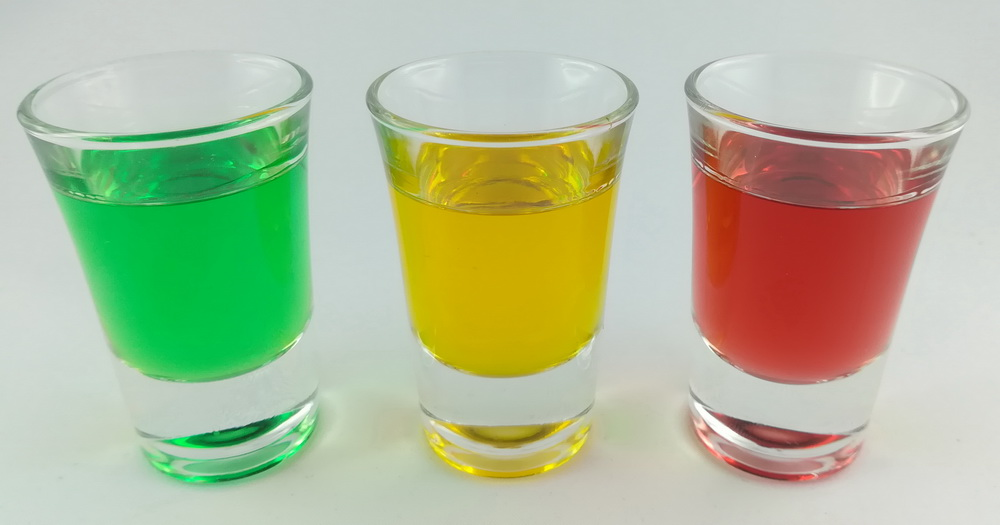 German liqueur specialty in Münsterland: "Rheder Ampel" - traffic light of Rhede (32 %, contains anise, sloe, and peppermint)